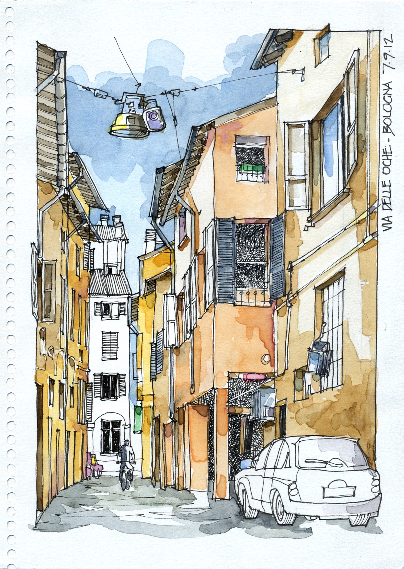 Sketch of Via delle Oche street, Bologna, Italy.